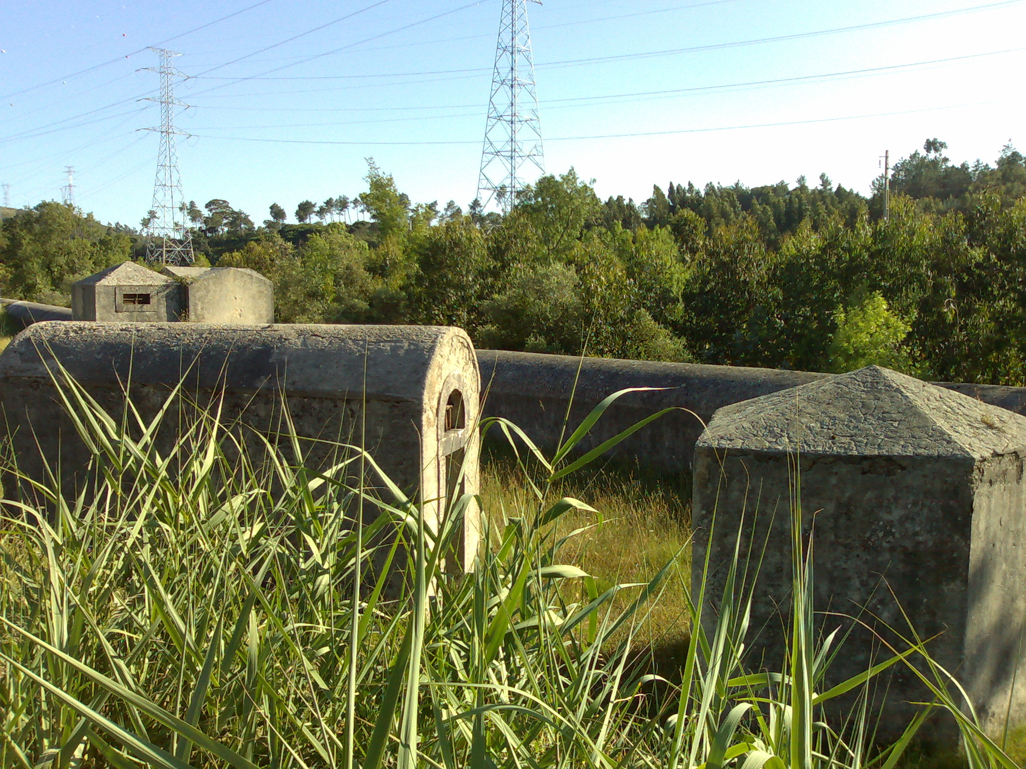 "Aqueduto das águas livres" at Belas, Portugal.